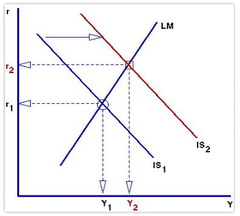 Per the IS/LM model, the IS curve moves to the right, causing higher interest rates (i) and expansion in the "real" economy (real GDP, or Y). My own graph.